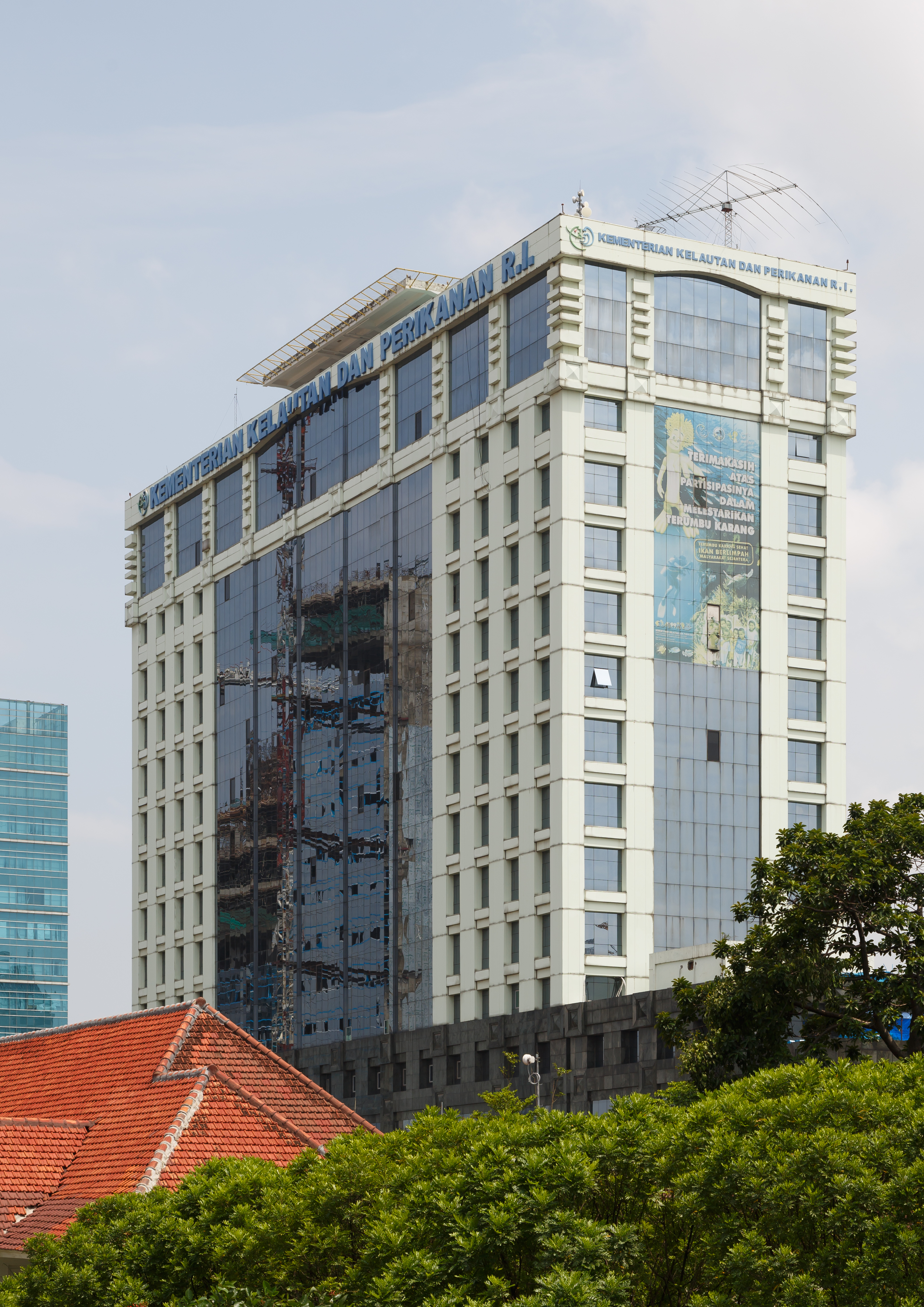 Jakarta, Indonesia: Kementerian Kelautan dan Perikanan Republik Indonesia (Marine and Fisheries Ministry).